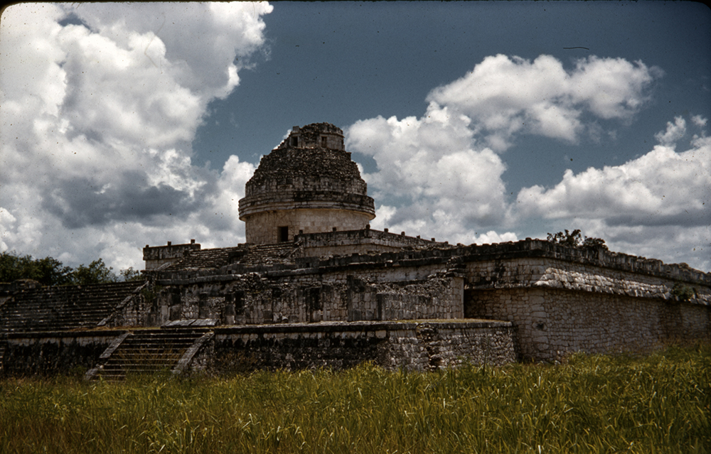 Title: The Observatory, Chichen Itza Creator: Medellin, Octavio Date: 1959 Place: Yucatan, Mexico Physical Description: 1 slide: color File: medellin_06_05A_100_opt.jpg Rights: Please cite Bywaters Special Collections, Southern Methodist University when using this file. For more information . For more information, View U.S. West: Photographs, Manuscripts, and Imprints